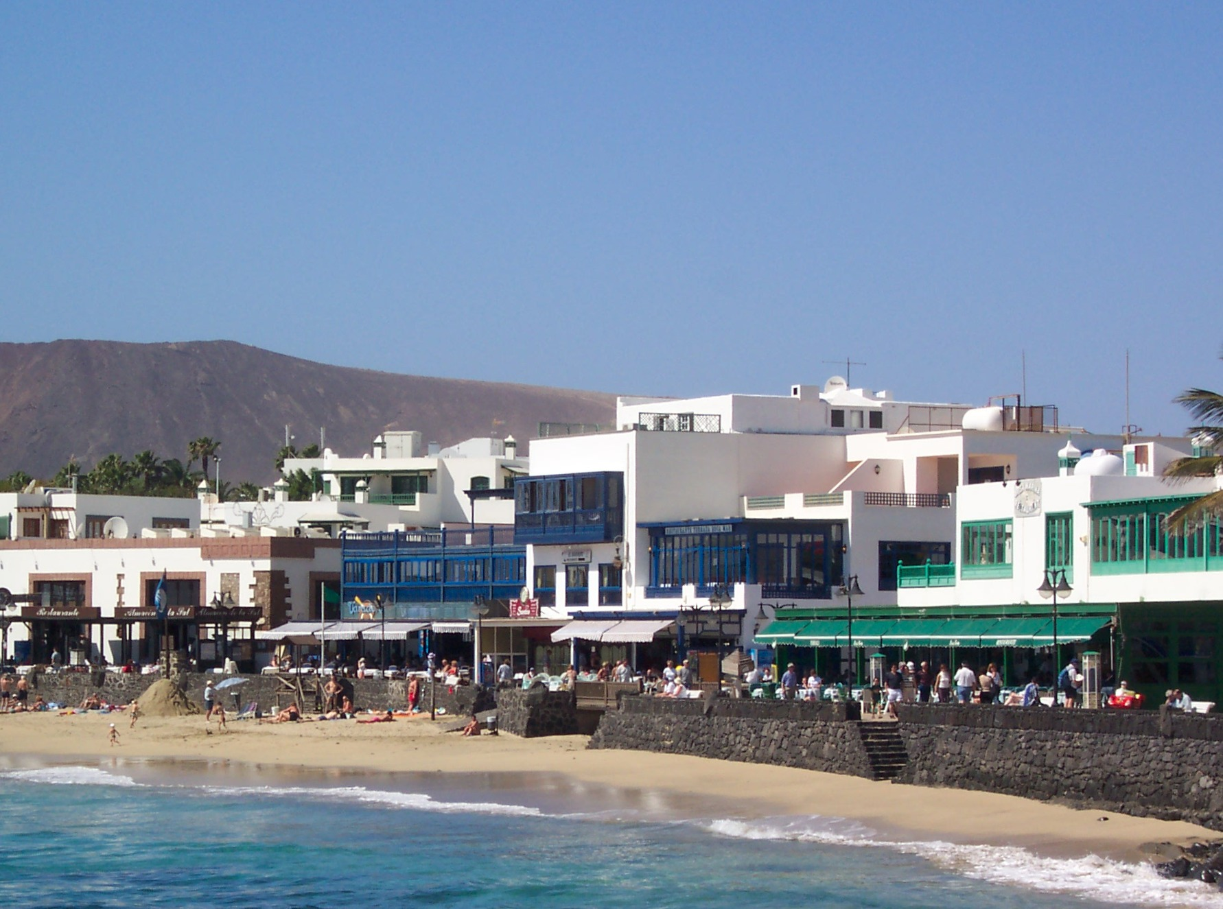 John Hunter own photograph